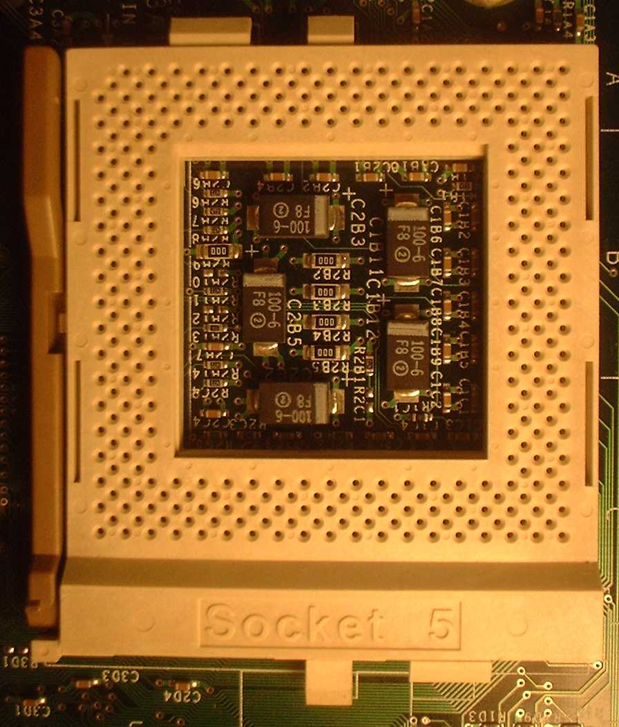 This is an image of the Socket 5, a microprocessor socket.